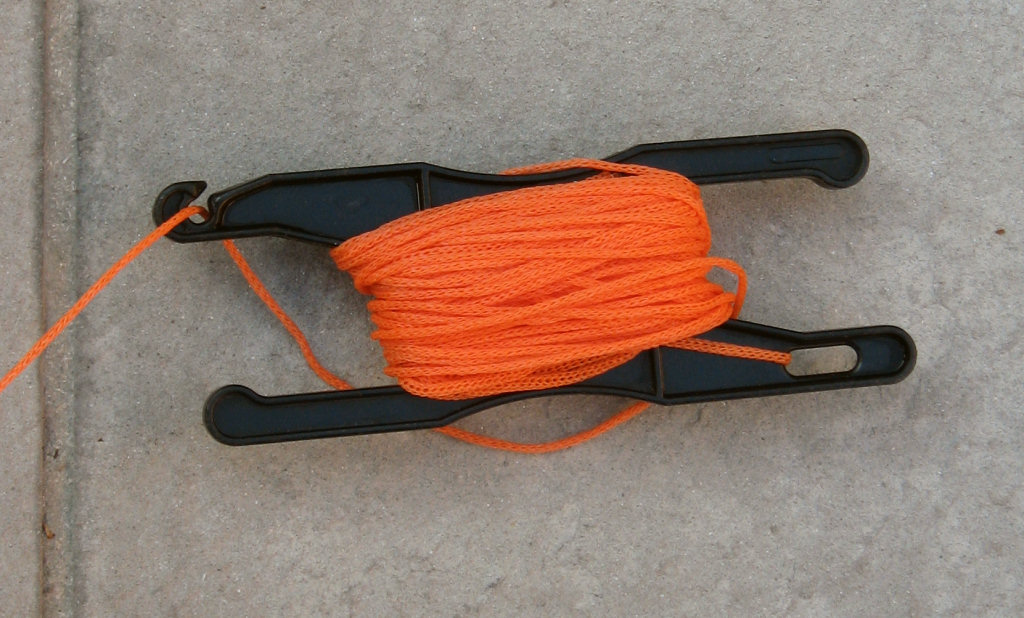 Plastic line wrapper with line (20m).